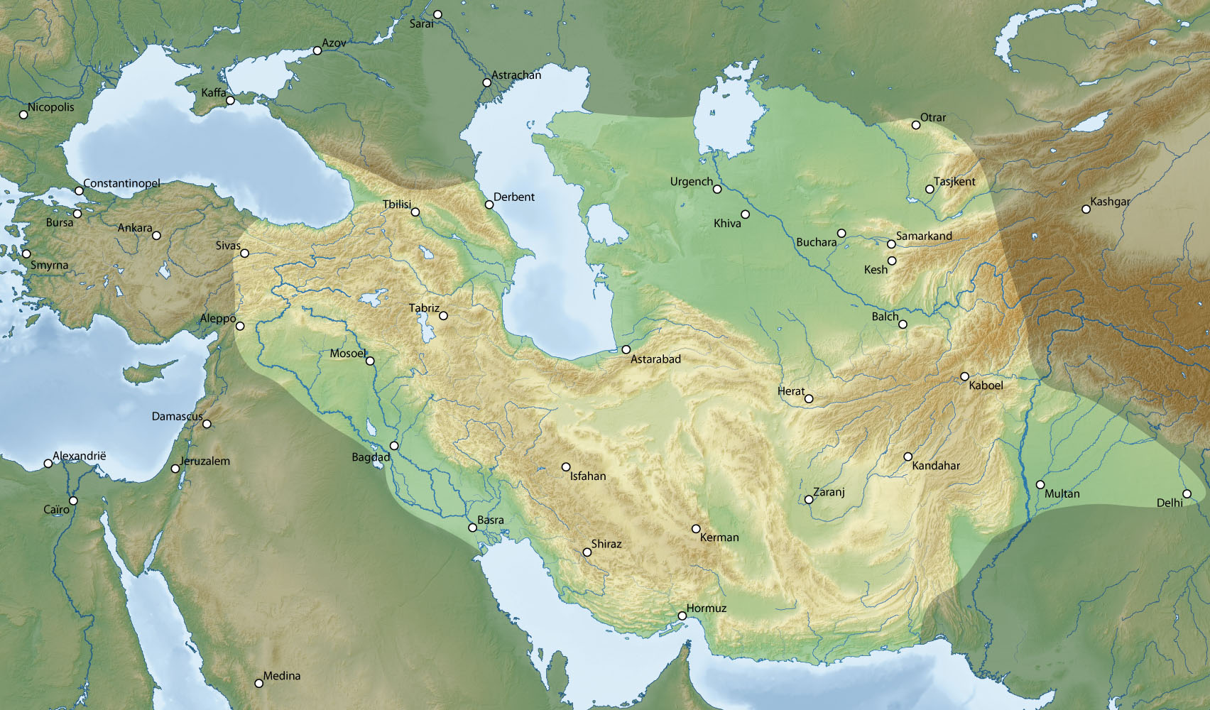 Timur's empire at his death, vasals aren't shown.